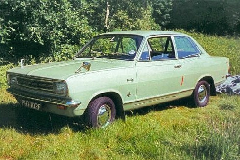 Vauxhall Viva SL90. I have cropped and slightly enhanced the resolution of an image found on Wiki commons